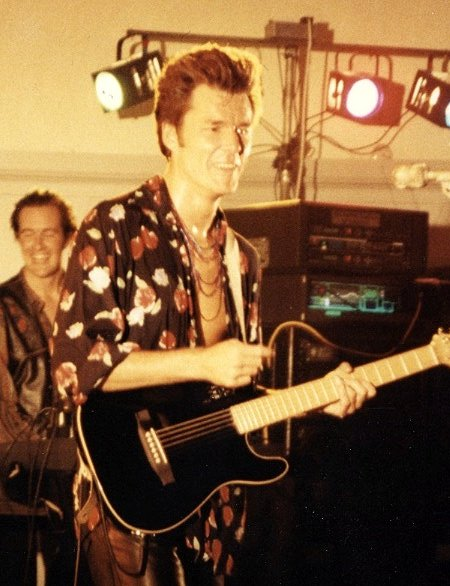 Stuart Adamson performing with Big Country at the Dunfermline Pavillion, Scotland in August 1991.